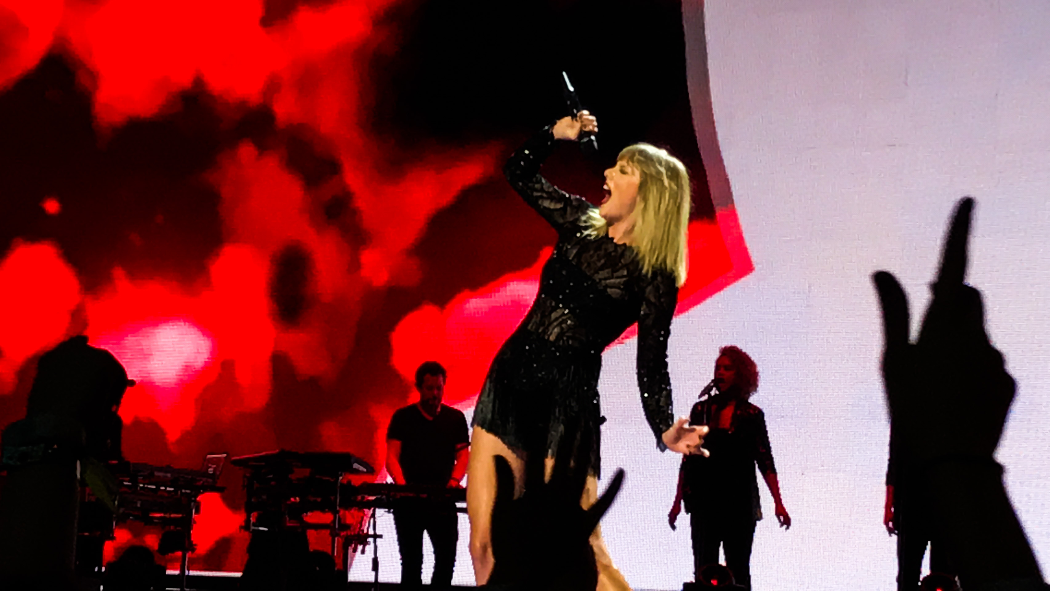 IMG_0742_edited